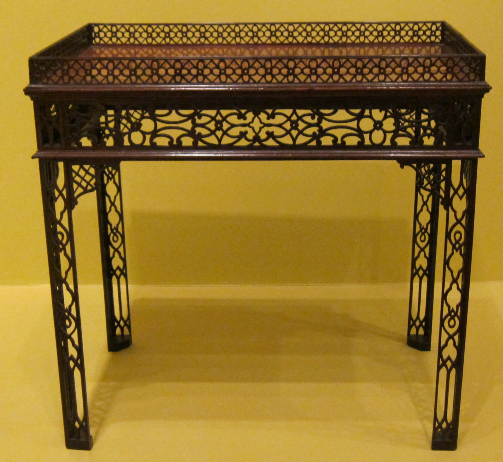 English mahogany tea table, after Thomas Chippendale, c. 1730, Honolulu Academy of Arts (Oh really? Chippendale was 12 in 1730!)